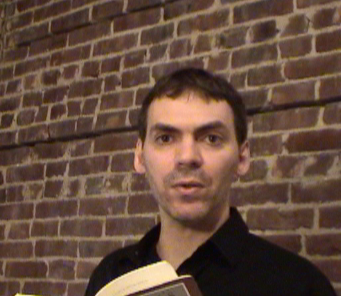 Peter Constantine 2008